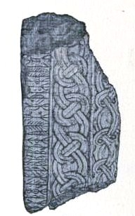 image